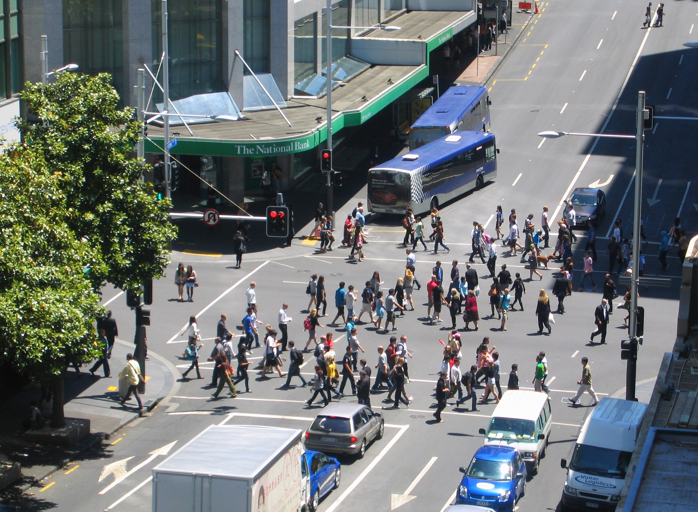 National Bank Tower Queen Street and Victoria Street West, Auckland